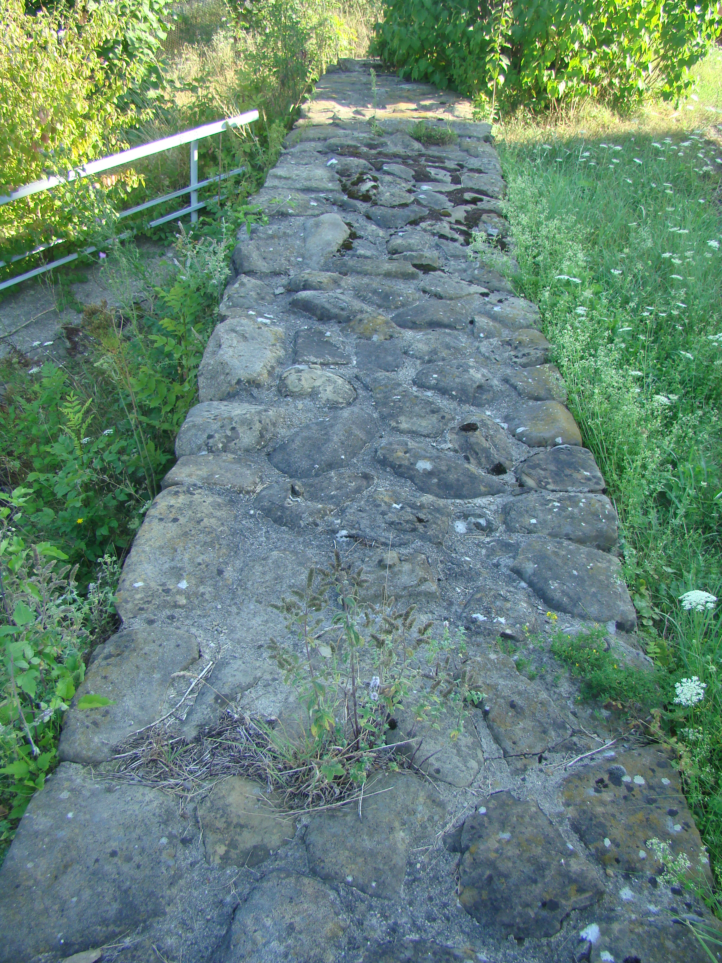 Lutheran church in Tărpiu, Bistrița-Năsăud county, Romania